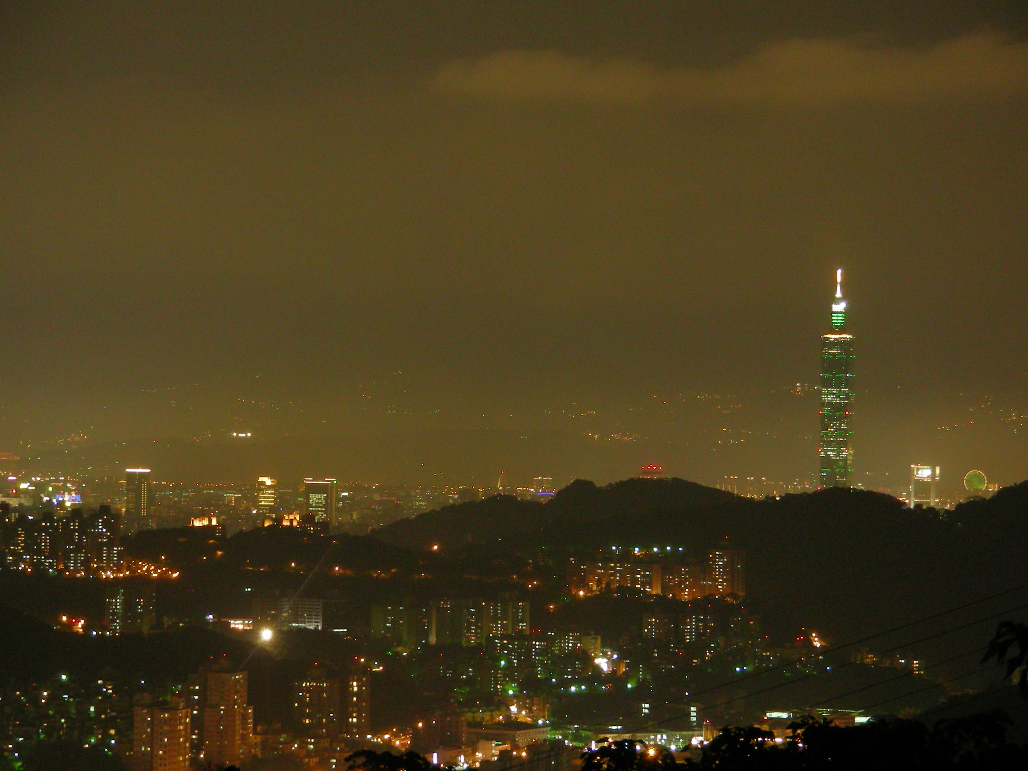 Night view of Taipei City, taken from MaoKong